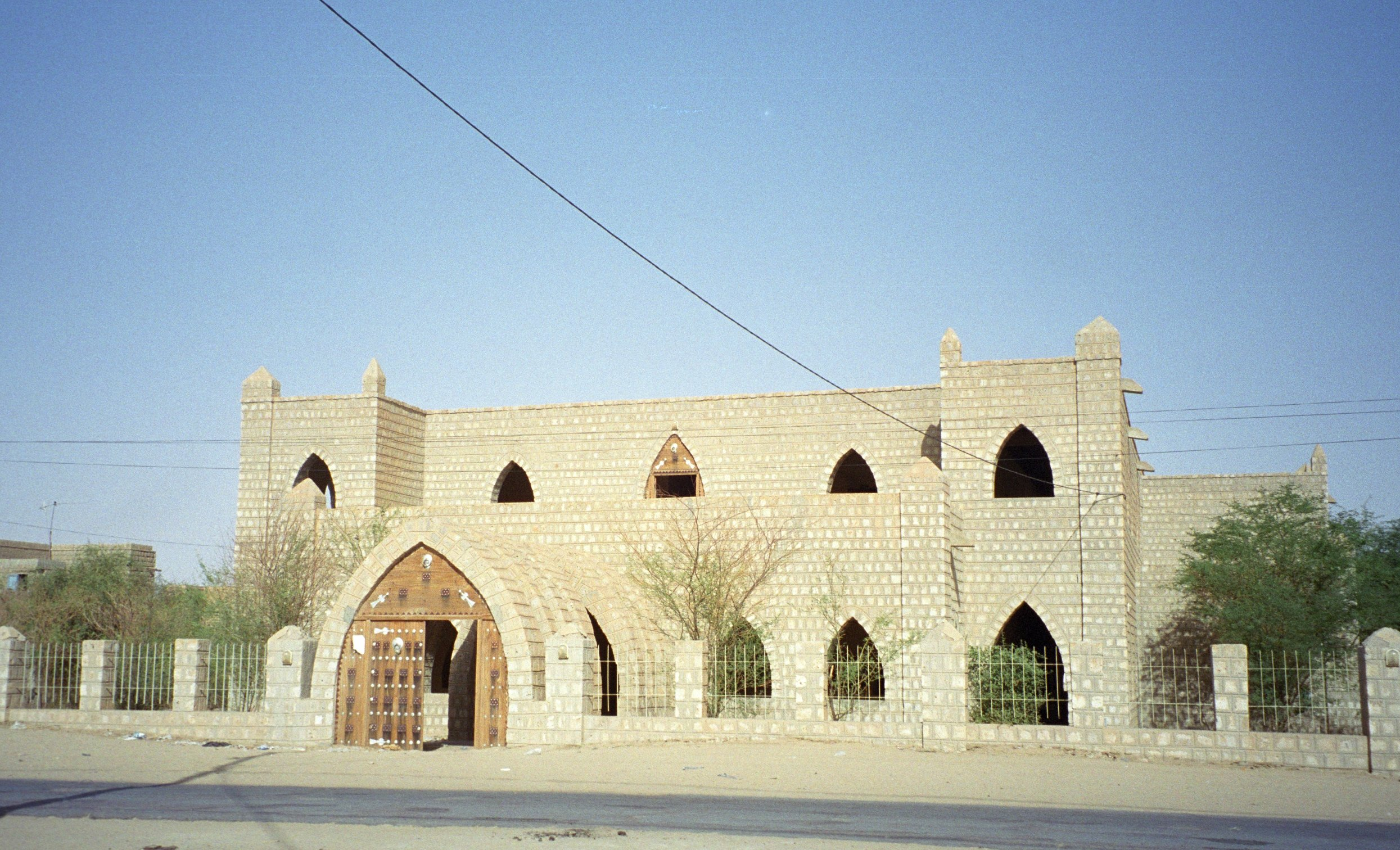 CEDRHAB in Timbuktu CEDRHAB stands for "centre de recherches historiques ahmed baba," a facility that seeks to preserve and restore thousands of gorgeous ancient islamic manuscripts that were all over the city before they were collected here.